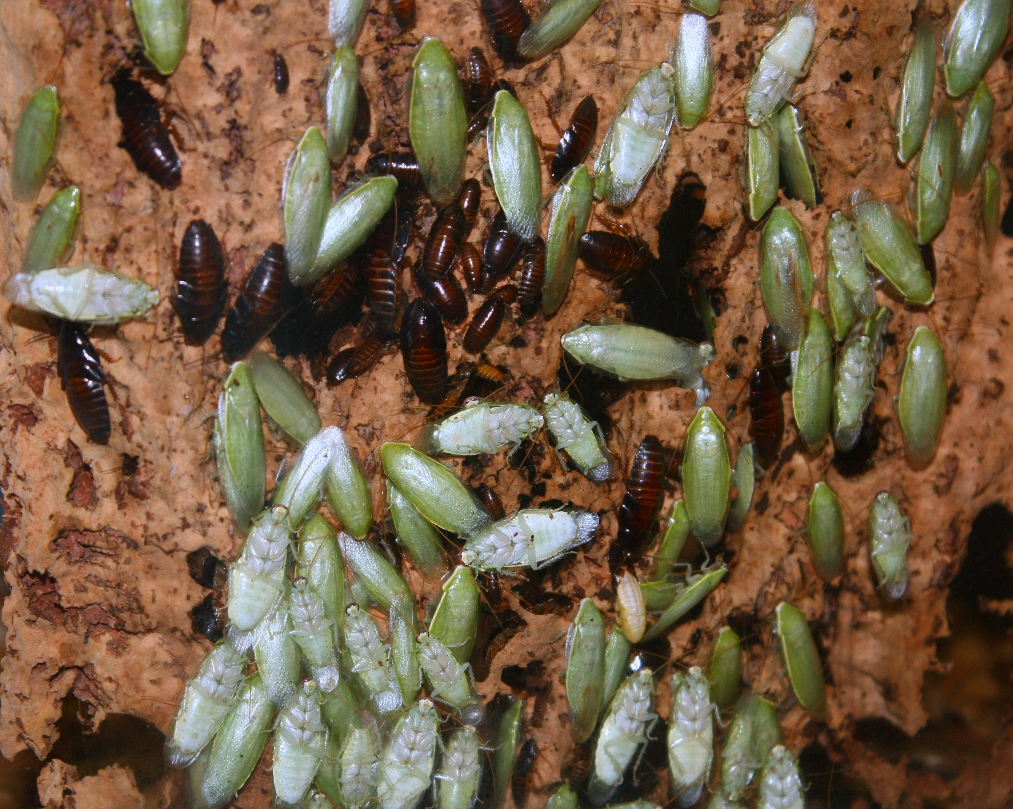 Panchlora nivea - adults and nymphs - taken at the Cincinnati Zoo.